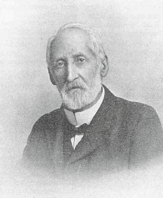 Paul Piccard, Swiss Engineer